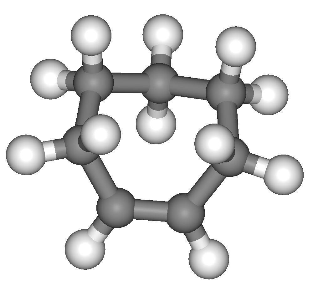 chemical structure of cis-cycloheptene